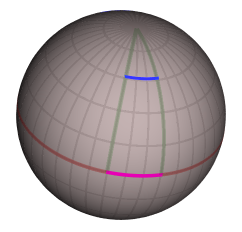 Produced for Introduction to general relativity to illustrate the meaning of a metric.